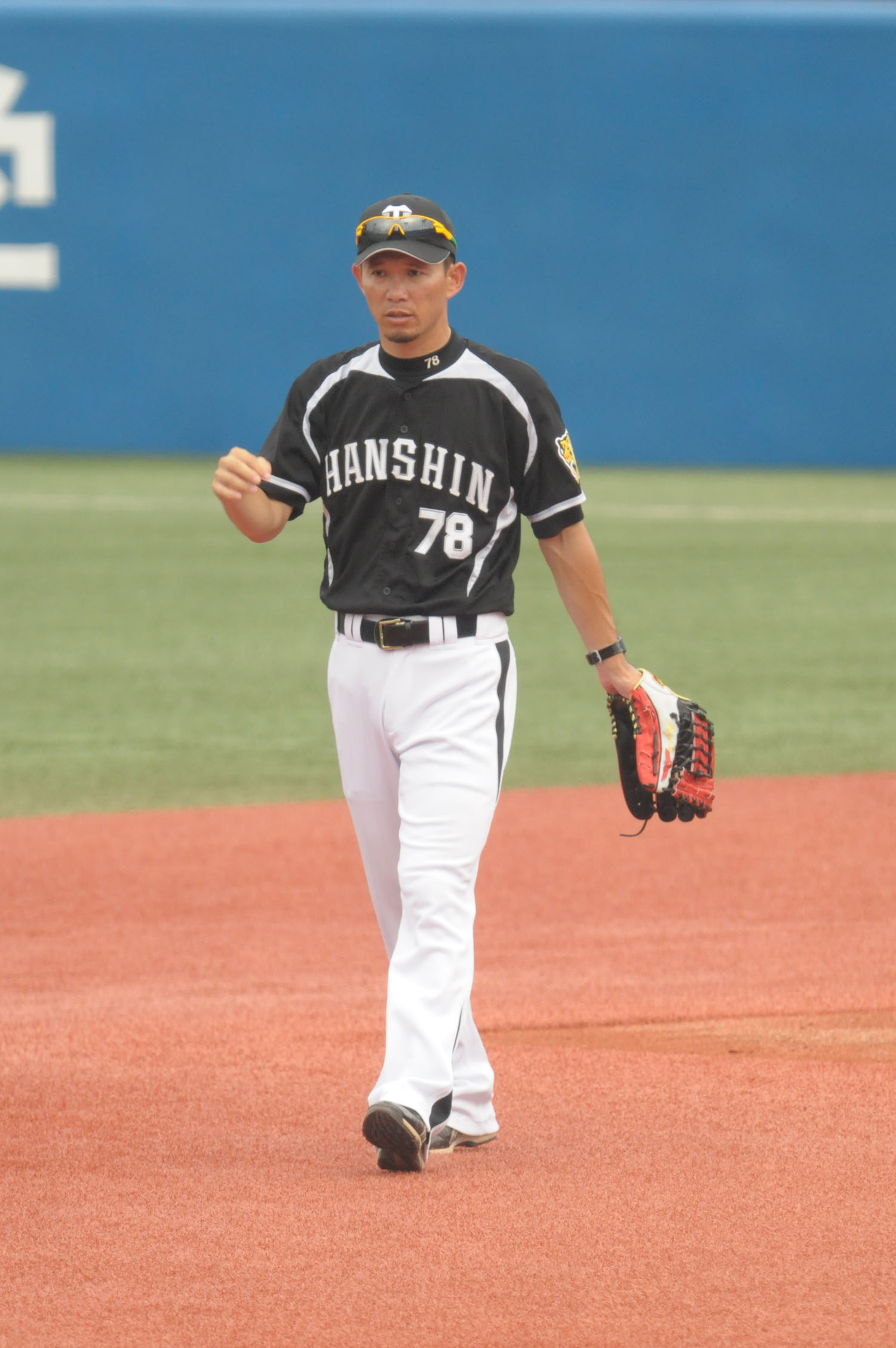 Koichi Sekikawa, coach of the Hanshin Tigers, at Meiji Jingu Stadium.